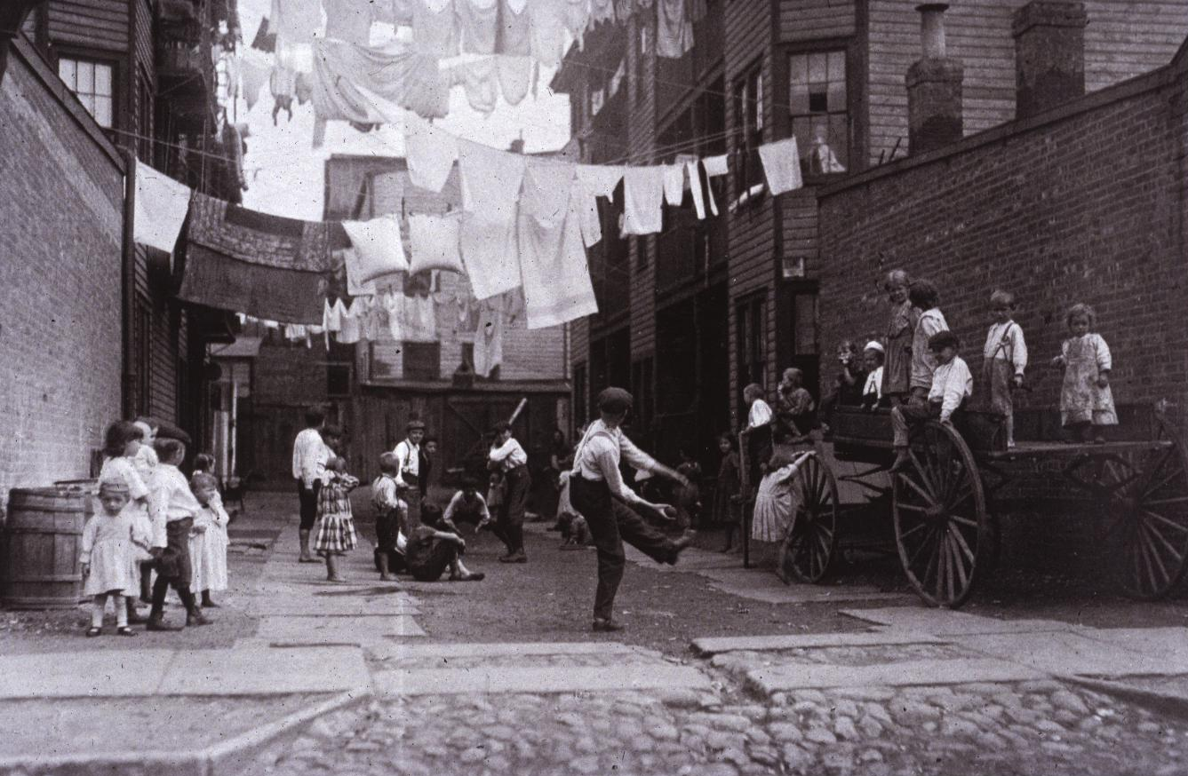 "Playground in Tenement Alley," Boston, MA, 1909. Lewis Hine photo. Courtesy of The George Eastman House International Museum of Photography and Film, 900 East Ave, Rochester, NY 14607.